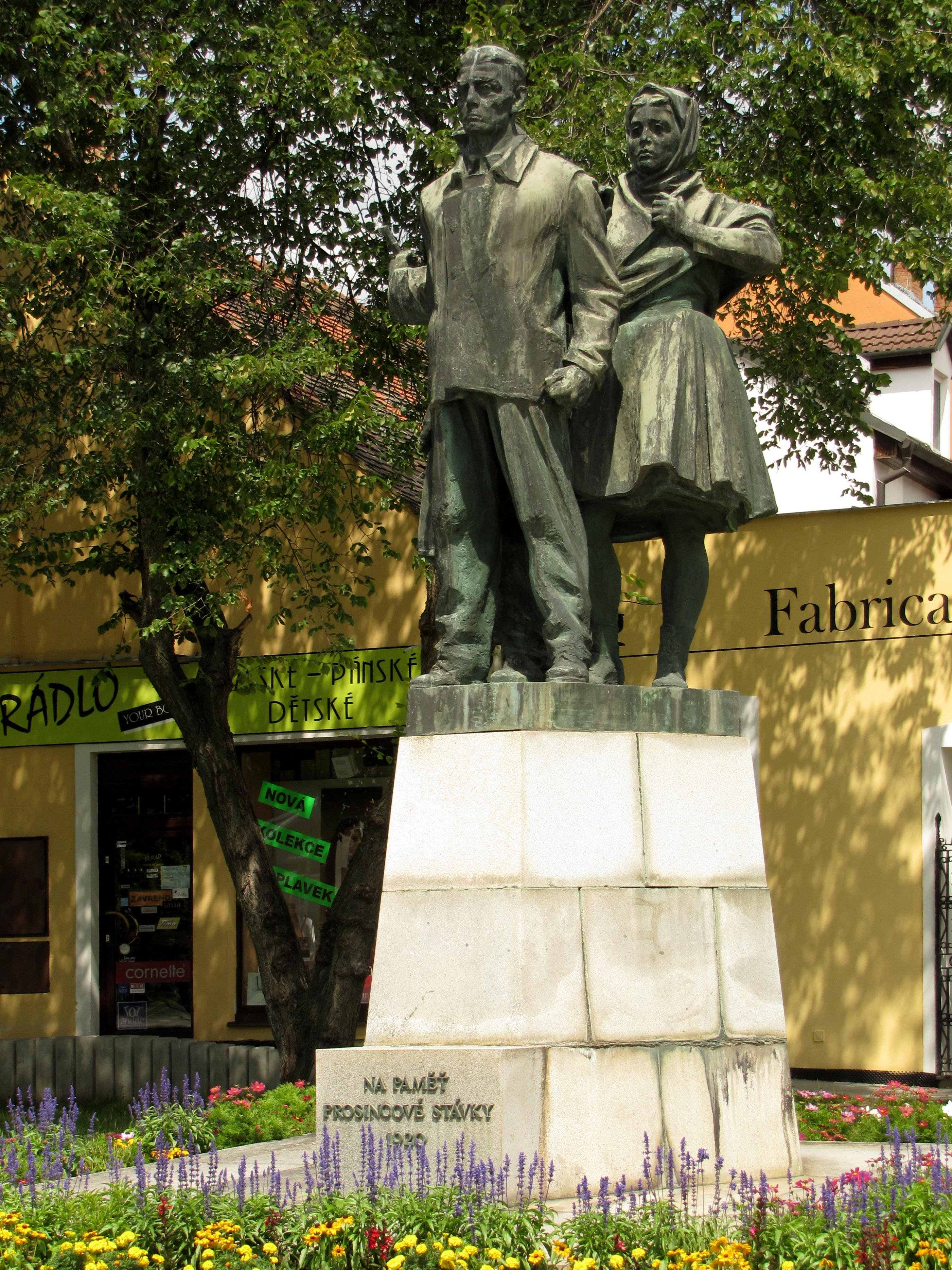 Hodonín, Czechia.